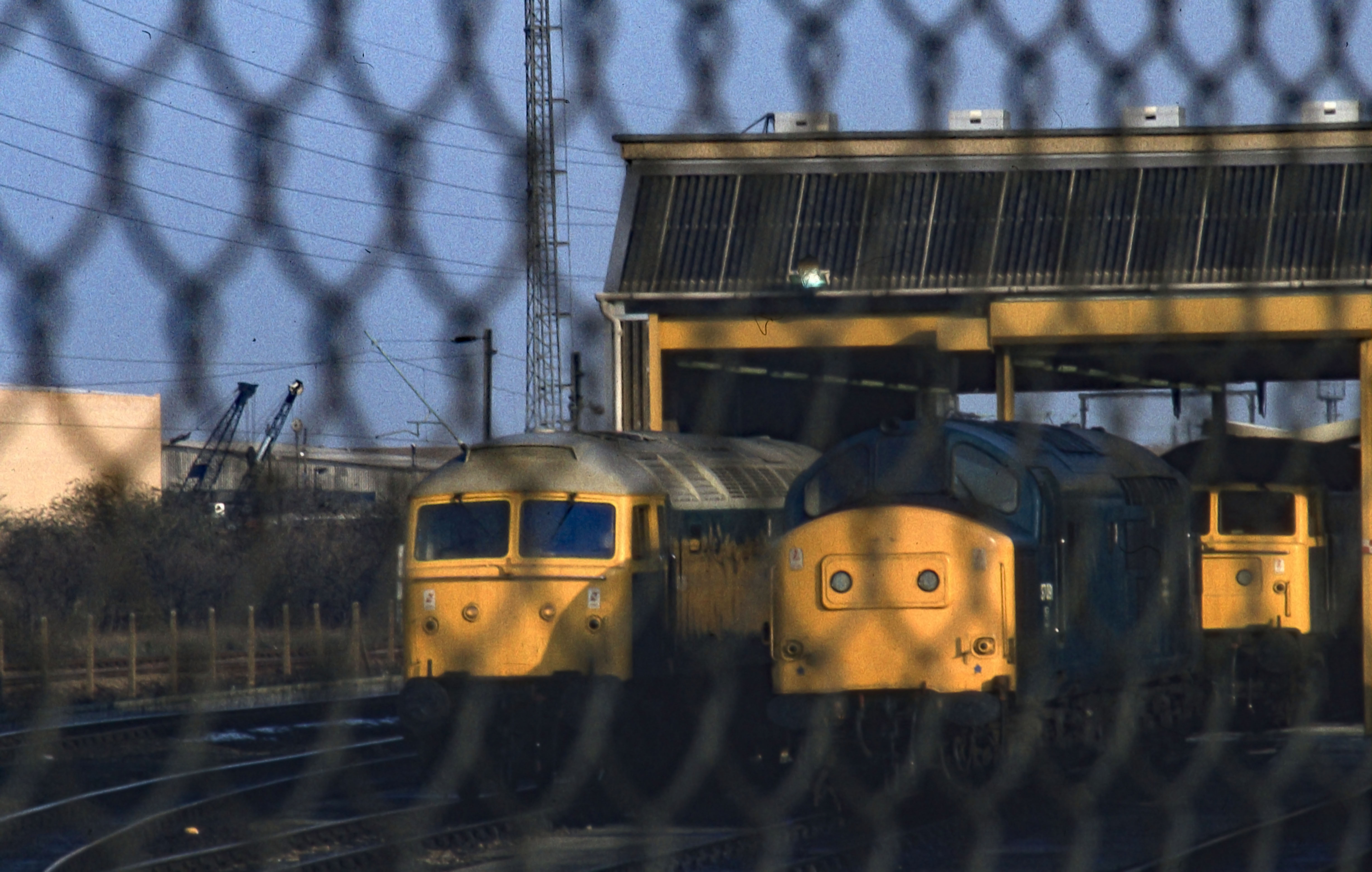 Classes 37 and 47 sit resting at Ripple Lane depot in the early 1980s. The Class 47 on the left is local as shown by the trademark Stratford silver roof and it is noticeable with all three loco have had their headcode boxes plated over and fixed lights fitted. Digitised transparency.